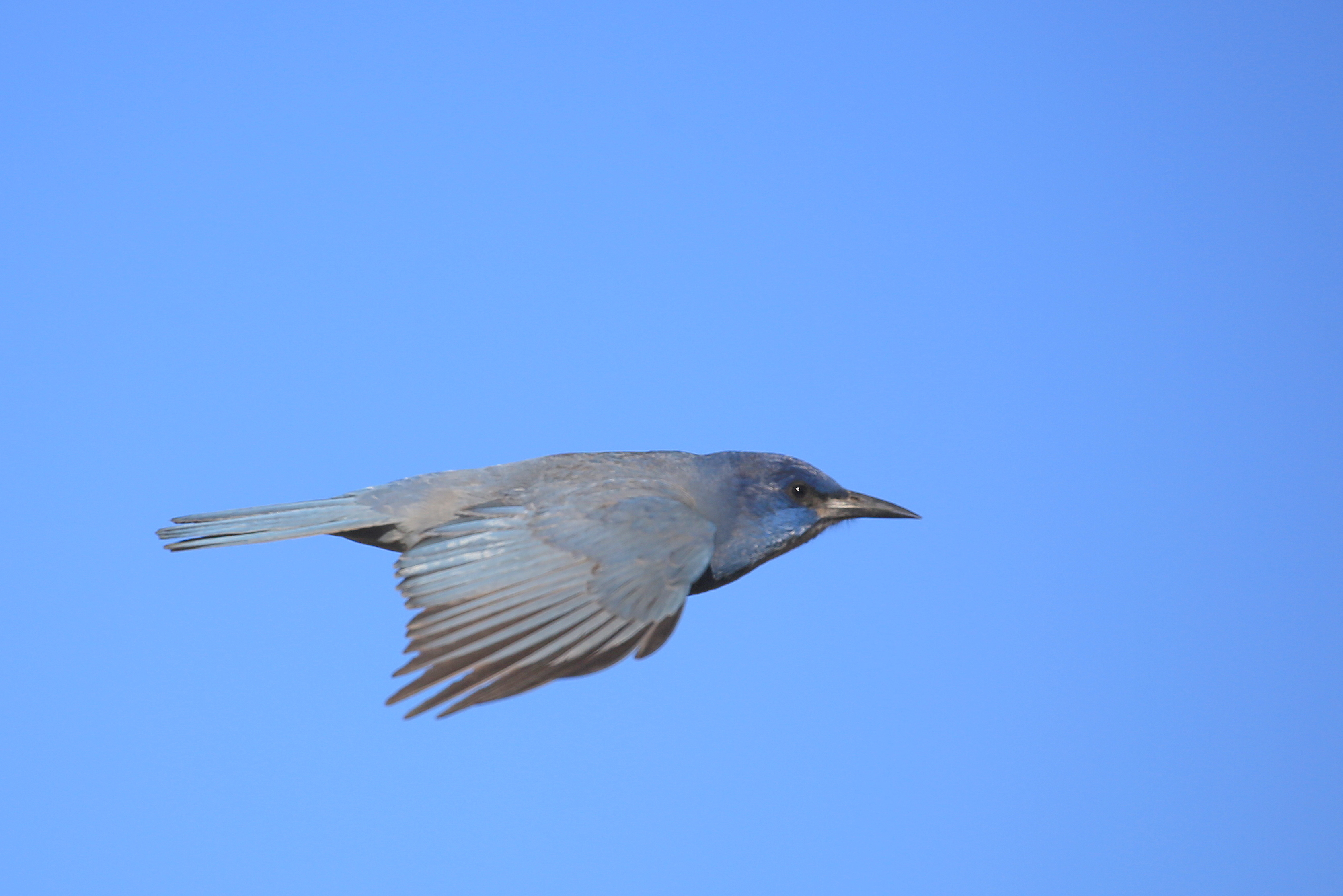 Pinyon Jay Gymnorhinus cyanocephalus, Carson City, Nevada ebird checklist ID=S21054294